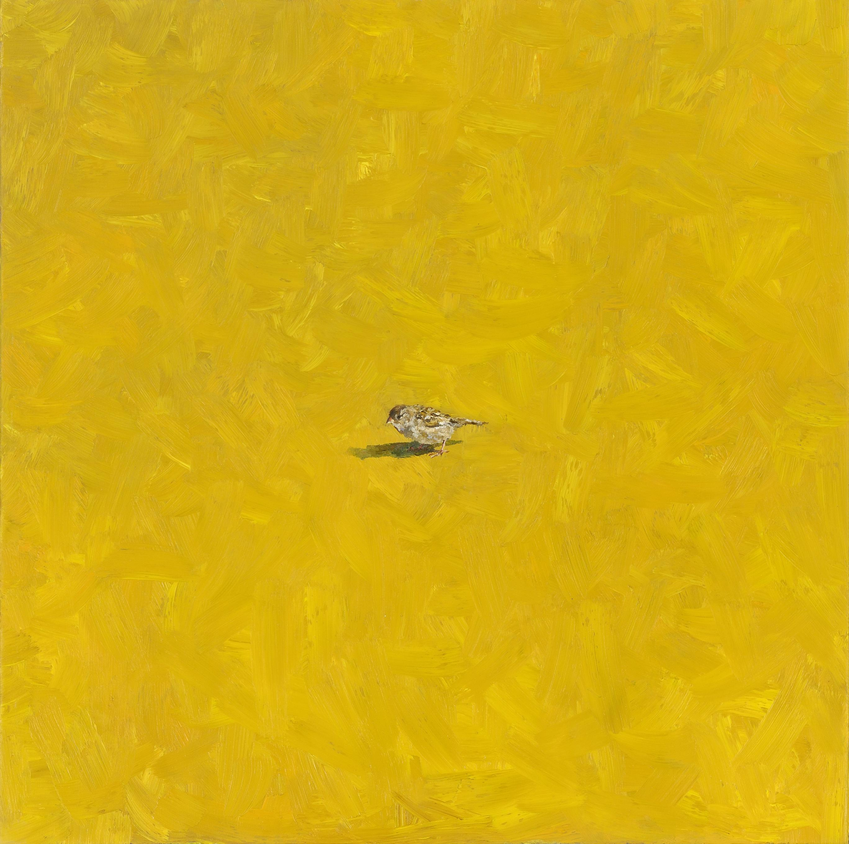 Oil painting by Gerard Prent: “Zonder titel (mus)” No Title (sparrow) 2 x 2 meter.